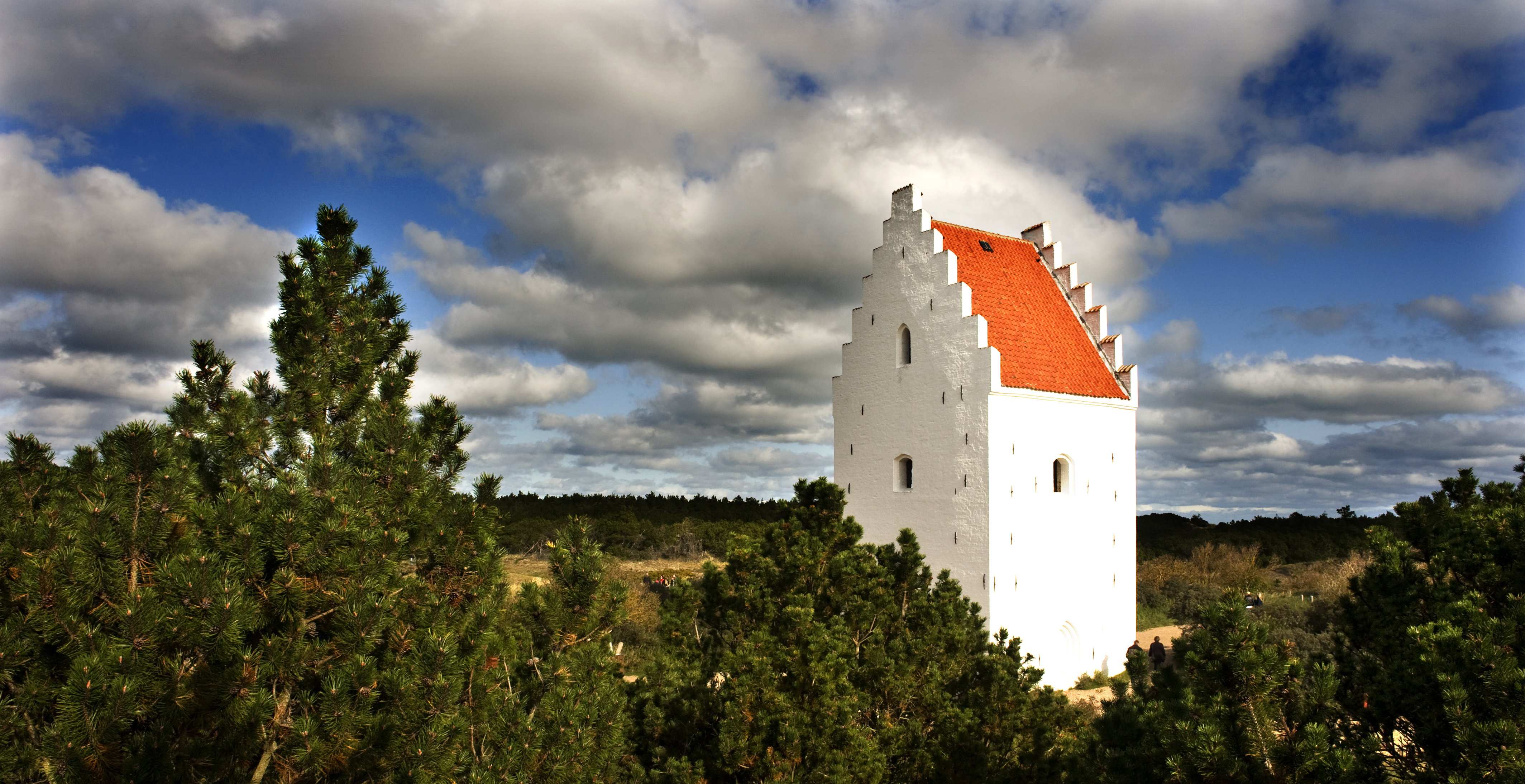 The bell tower of the church, who went to the dunes. Skagen.